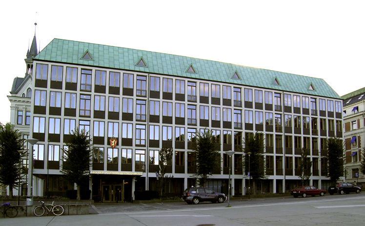 Utenriksdepartementet (Ministry of Foreign Affairs), Norway. 7. juniplassen, Oslo. Built 1962. Architects: Bernt Heiberg and Ola Mørk Sandvik.